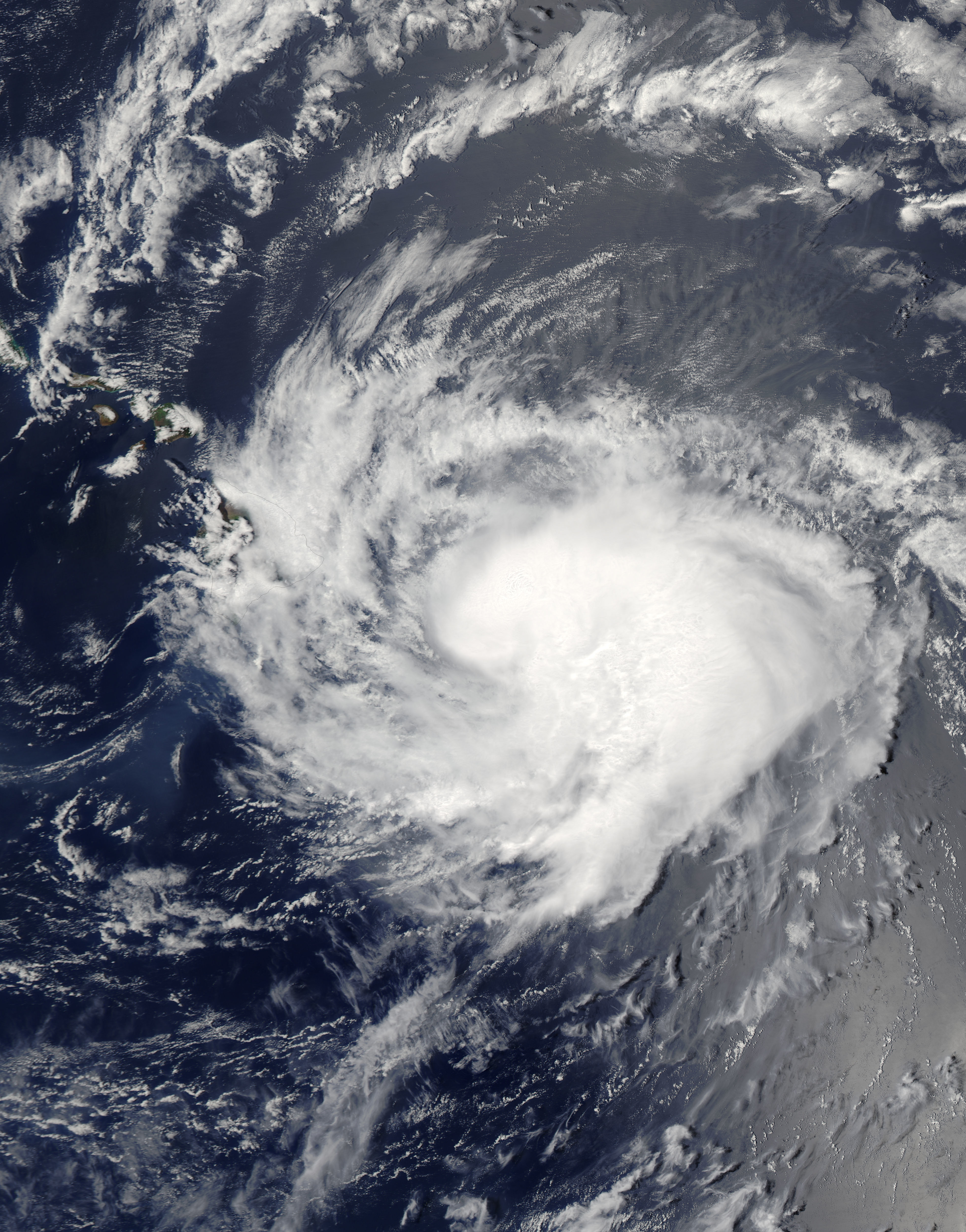 Tropical Storm Iselle (09E) over Hawaii